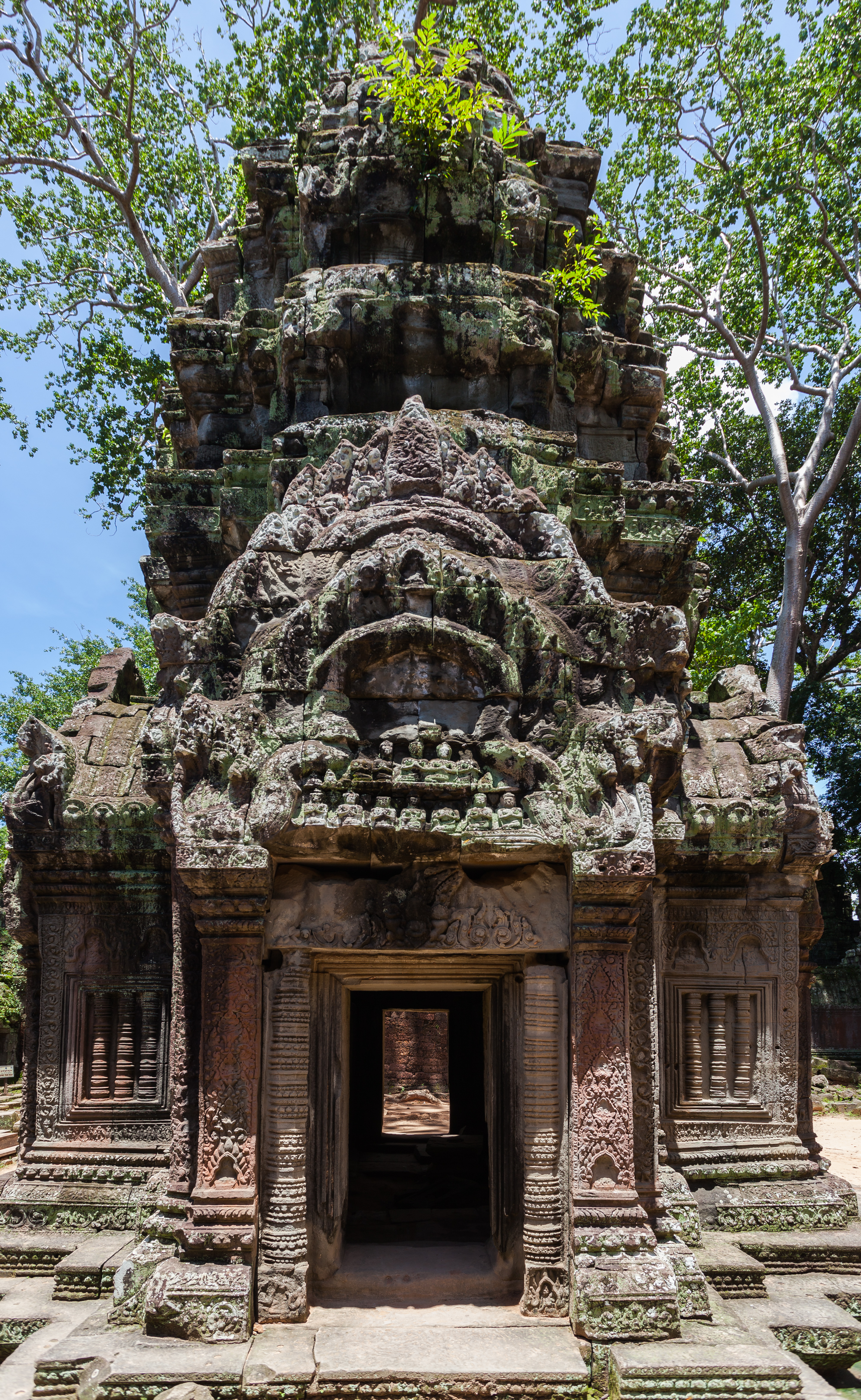 Ta Phrom, Angkor, Cambodia